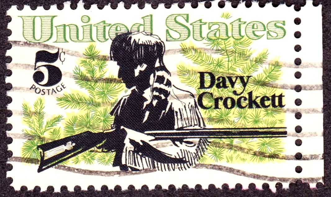 Davy Crockett 1967 Issue, 5c